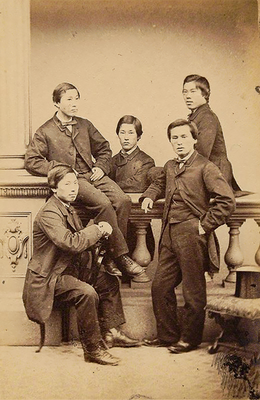 The Chōshū Five (長州五傑) were members of the Chōshū han of western Japan who studied in England from 1863 at University College London under the guidance of Professor Alexander William Williamson. From left to right: On the top: Endō Kinsuke, Inoue Masaru, Ito Hirobumi. below: Inoue Kaoru, Yamao Yozo